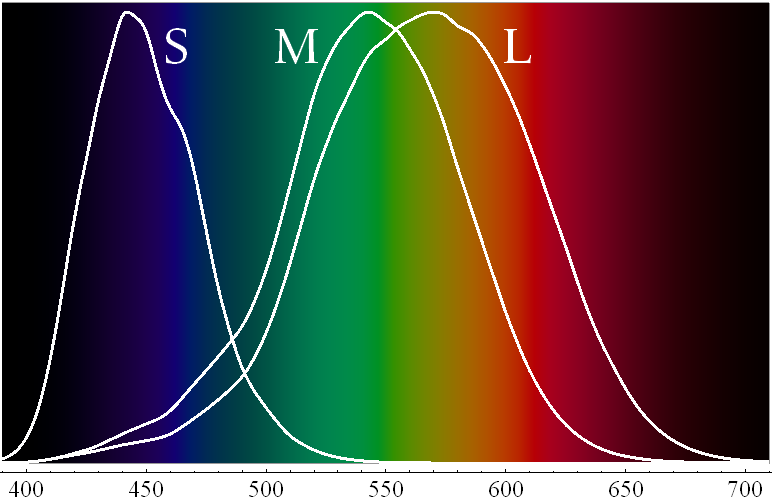 The Stockman and Sharpe (2000) 2° cone fundamentals, as found here, plotted against the most accurate sRGB spectrum I could manage. Should really be an SVG.